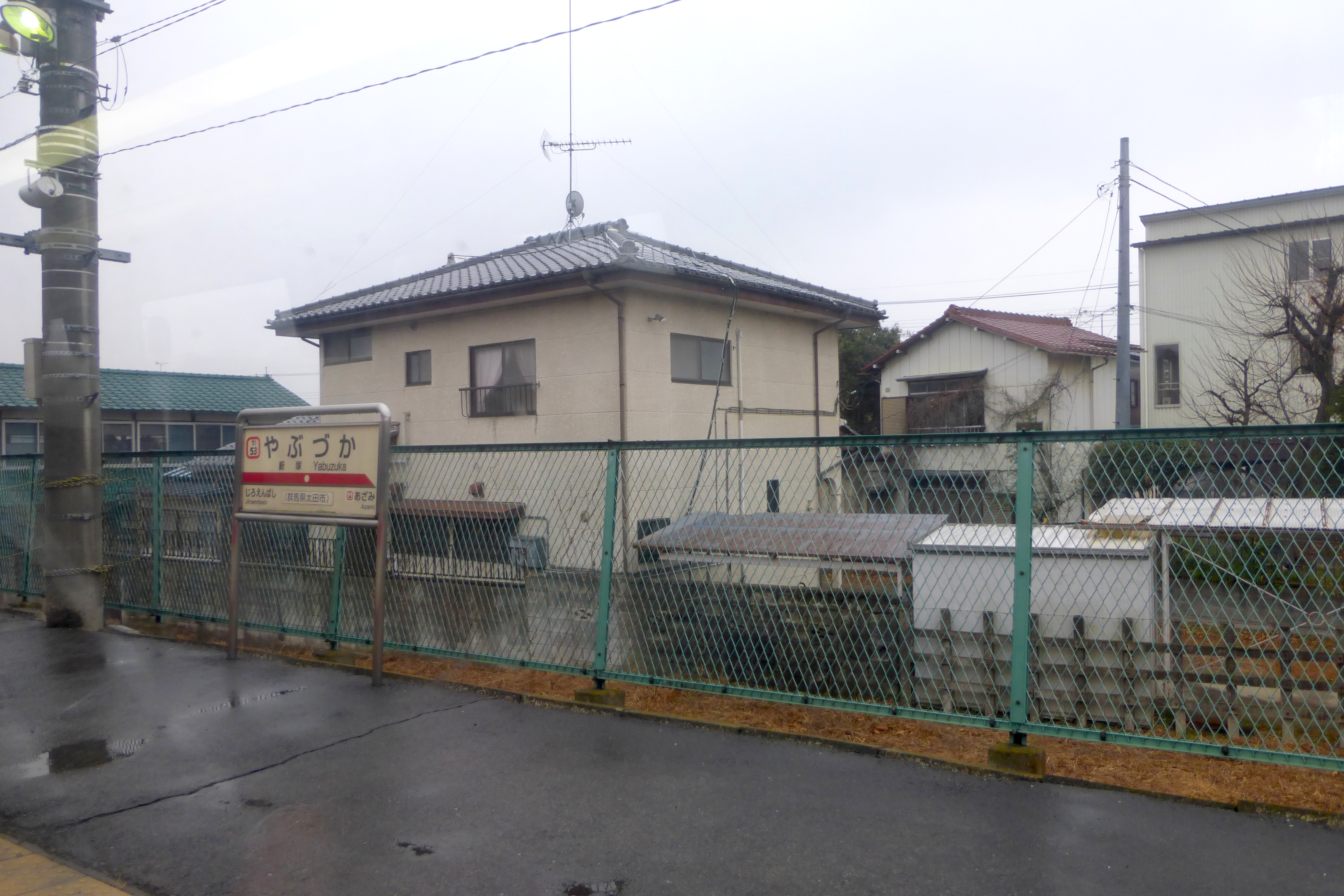 Yabuzuka Station (藪塚駅 Yabuzuka-eki) platform on a rainy day.